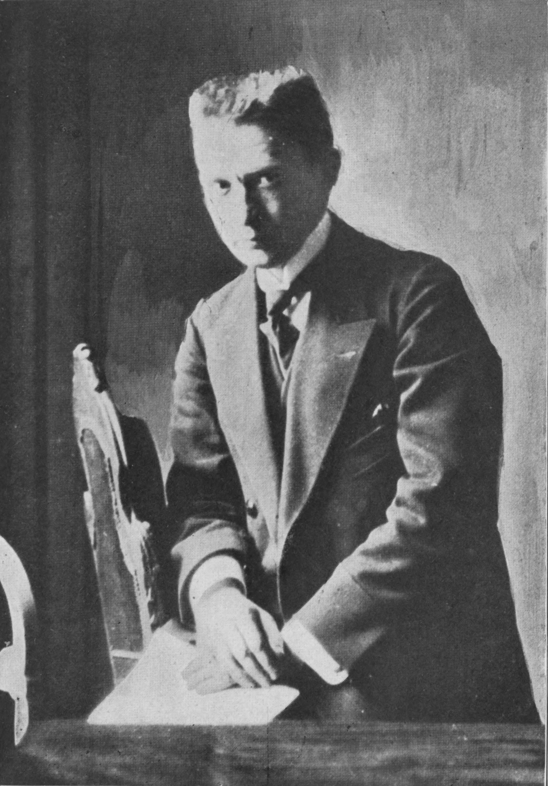 Alexander Kerensky, socialdemocratic politician and head of the Russian Provisional Government (1917).